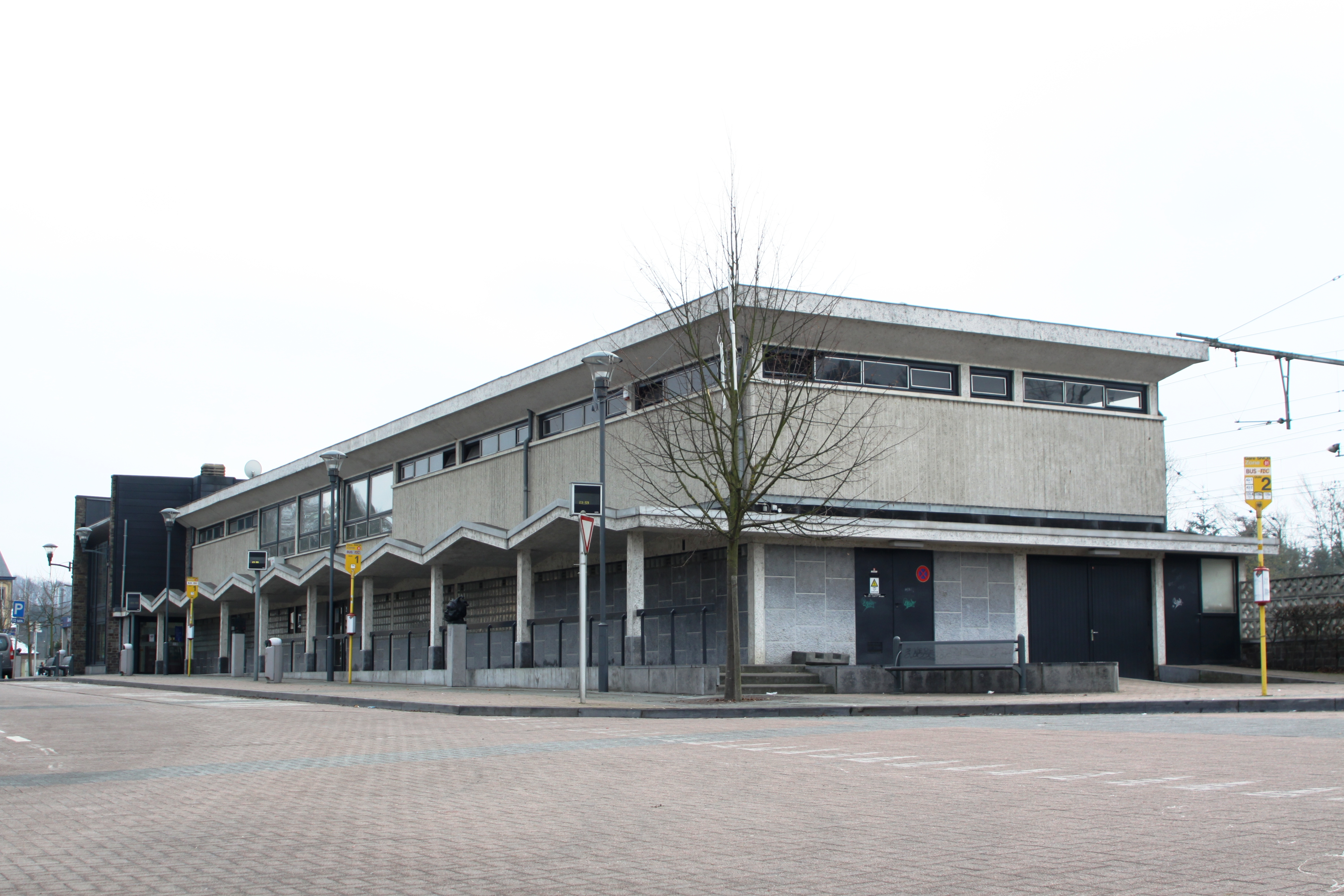 Train station Ciney front